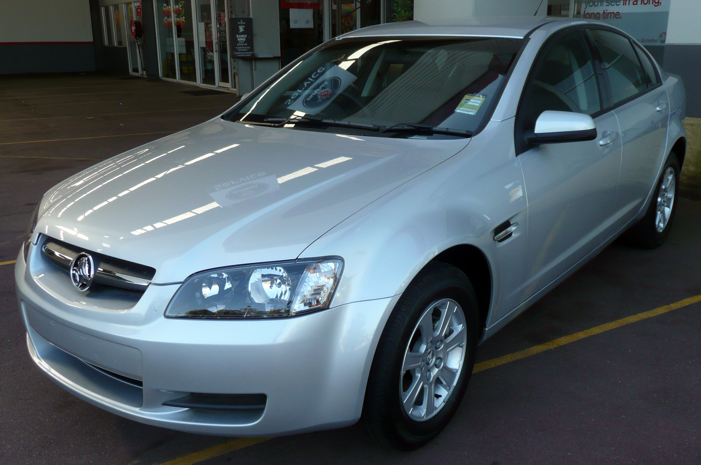 2008 Holden Commodore (VE MY09) Omega sedan. Photographed at McGrath Sutherland Holden, Kirrawee, New South Wales, Australia.